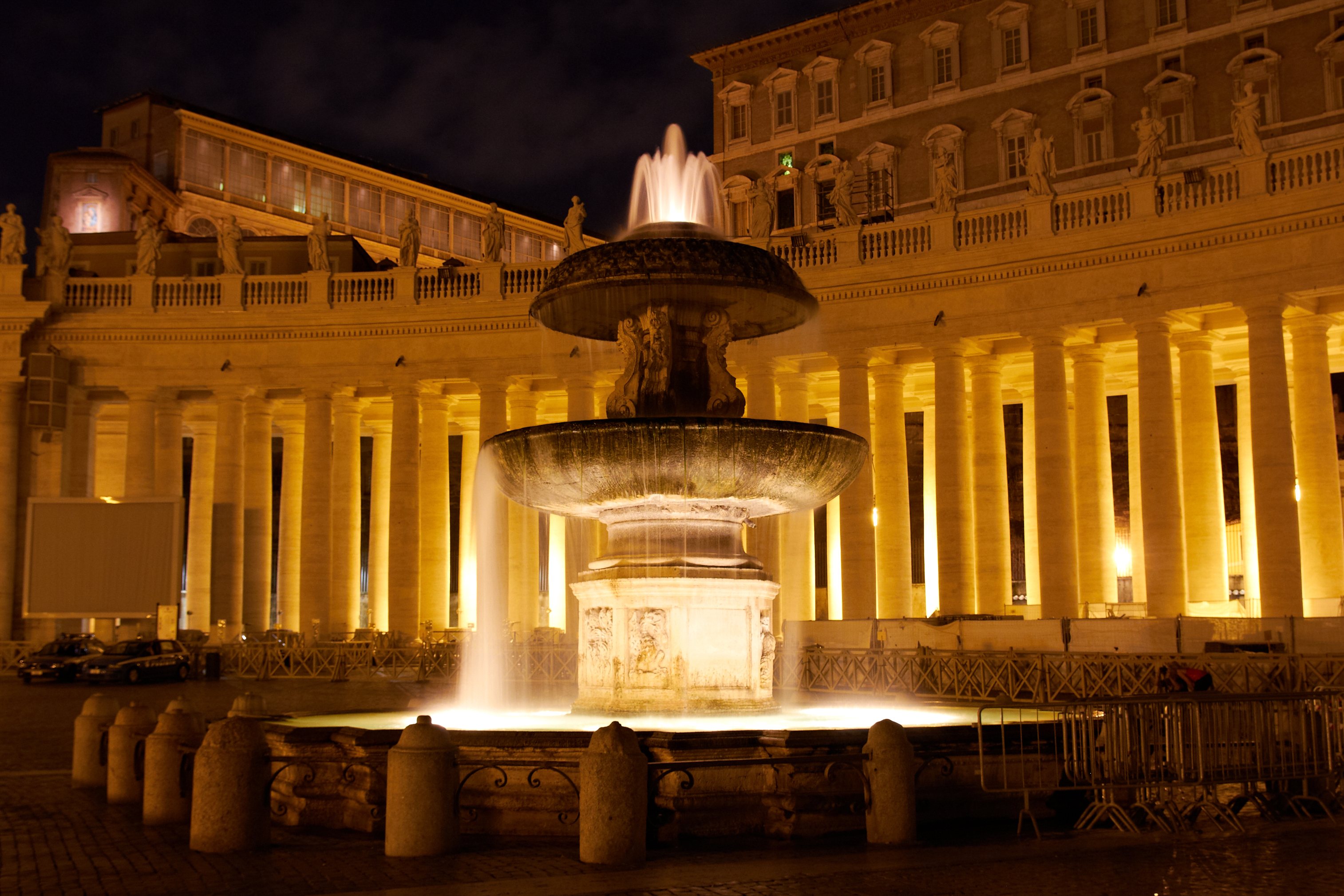 Fountain of Carlo Maderno on Piazza San Pietro